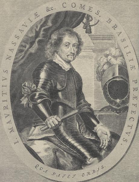 Johan Maurits, portrait from the 17th century by unknown artist.